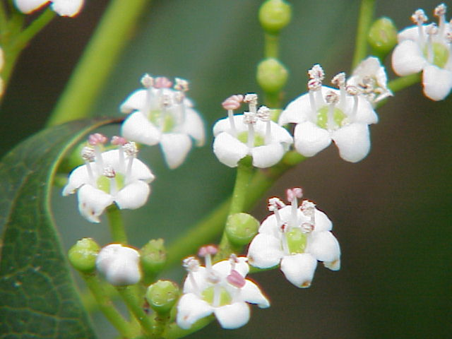 Species: Viburnum globosum Family: Adoxaceae (formerly in Caprifoliaceae) Image No. 1